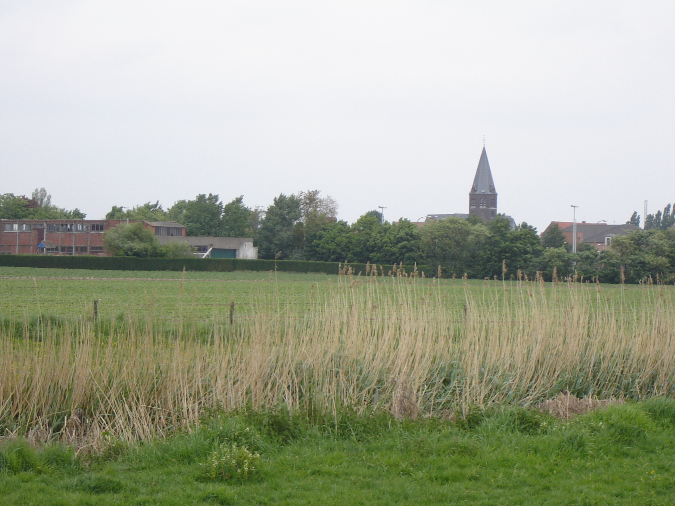 Bissegem, as seen from the open space left outside the Ringway around the city Kortrijk (R8). Bissegem, Kortrijk, West Flanders, Belgium